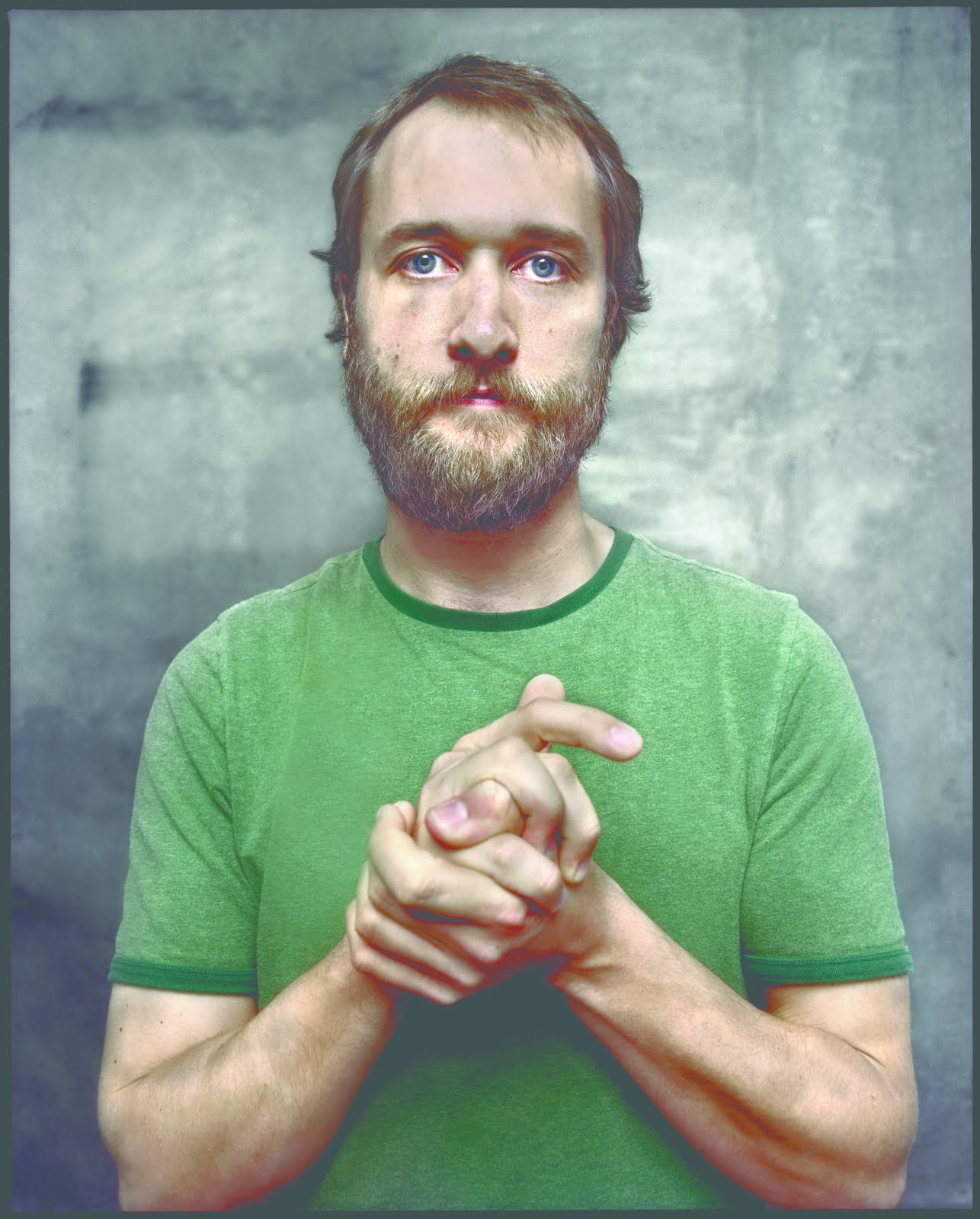 for more information please visit